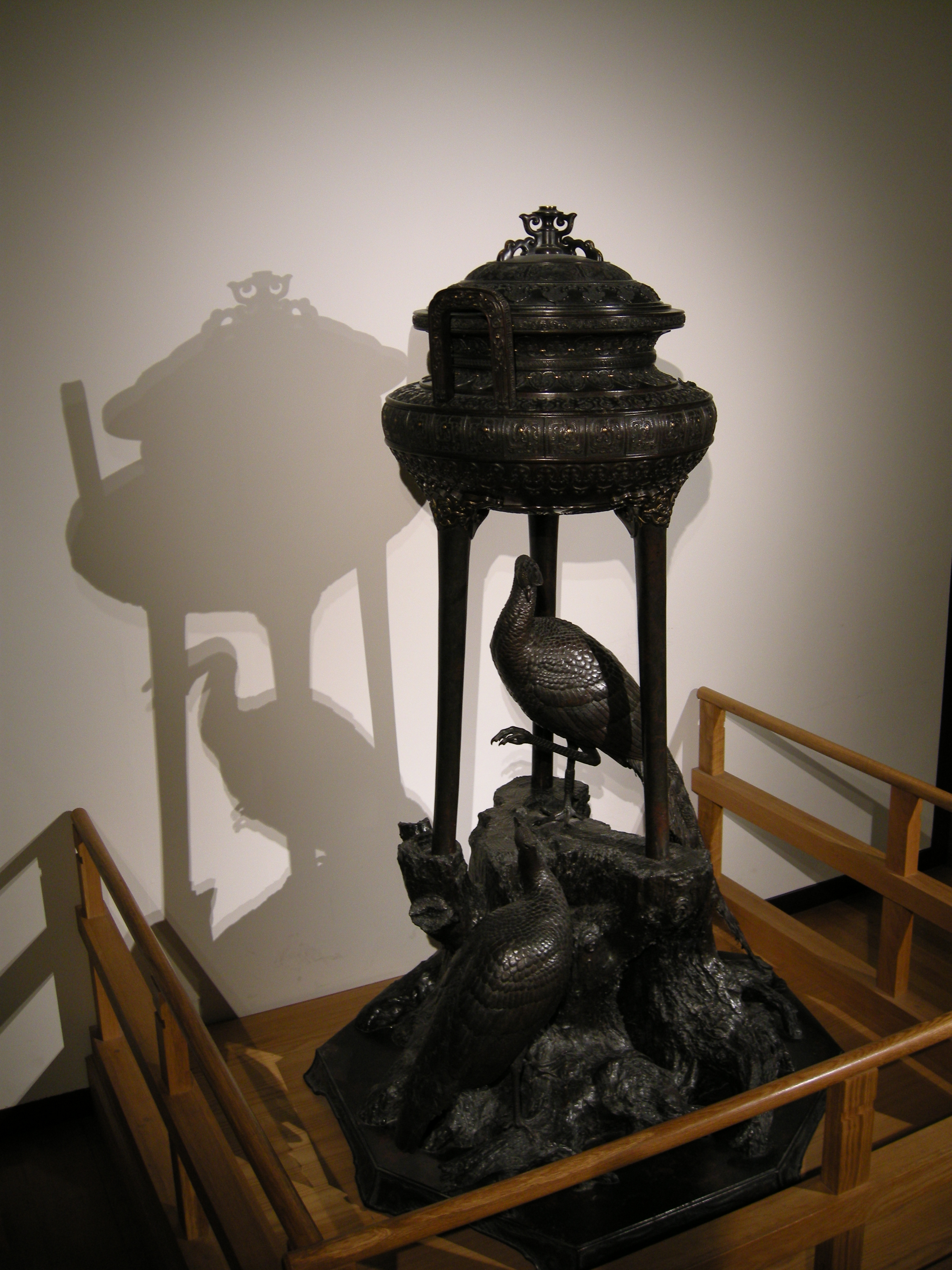 Lidded incense burner (koro) in the form of a tripod vase on a tree root with attached peacock and peahen Signed 'Dai Nippon, Koko Sei' Patinated bronze inlaid with gilt bronze and other soft metal alloys About 1877 This magnificent example of Japanese bronze casting was first exhibited at the 1878 Paris Universal Exposition by the Kiritsu Kosho Koisha (First Industrial Manufacturing Company) of Japan. Under the bowl of the burner (which is a greatly modified form of the ancient Chinese 'ding' bronze) is a cast seal which bears the art name, Koko, of Suzuki Chokichi. Chokichi was one of the most renowned Japanese metalworkers of the late nineteenth century. The incense burner was purchased in 1883 from the Parisian-based dealer S. Bing for £1586 7s 2d, which was then a record amount of money paid for a single work of Japanese art. This sum, from the Museum's annual expenditure on works of art of just over £13,000, indicates the significance to the west of contemporary Japanese works at that time. Wikipedia Loves Art at the Victoria and Albert Museum This photo of item # 188-1883 at the Victoria and Albert Museum was contributed under the team name "VeronikaB" as part of the Wikipedia Loves Art project in February 2009. Victoria and Albert Museum The original photograph on Flickr was taken by VeronikaB—please add a comment to the original Flickr page whenever a use has been made on Wikipedia or another project. Project galleries on Flickr: this institution, this team